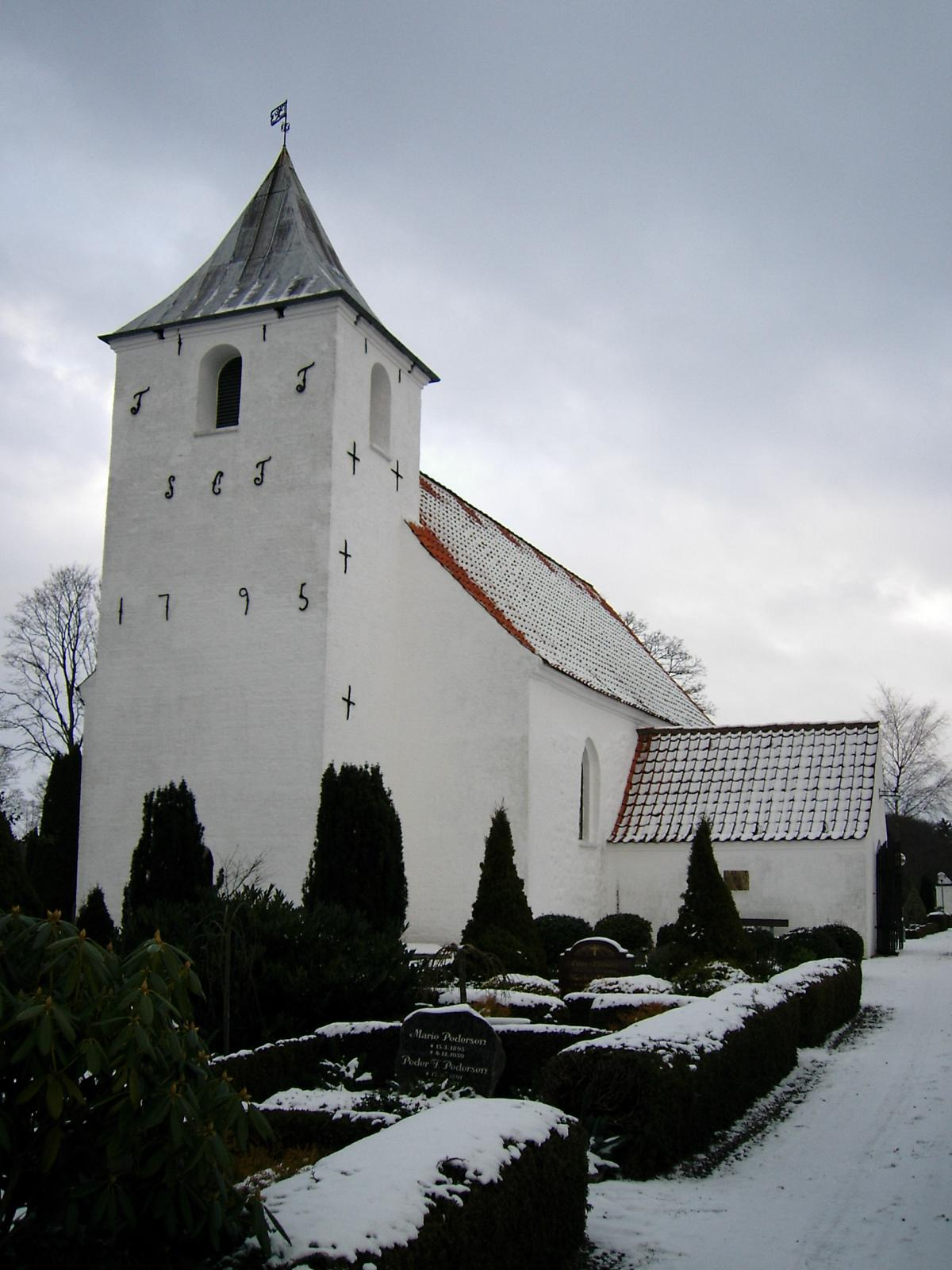 The Church of Sdr. Vissing, Denmark, seen from west-south-west.